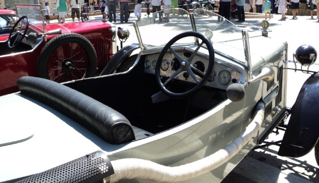 LORYC Sport